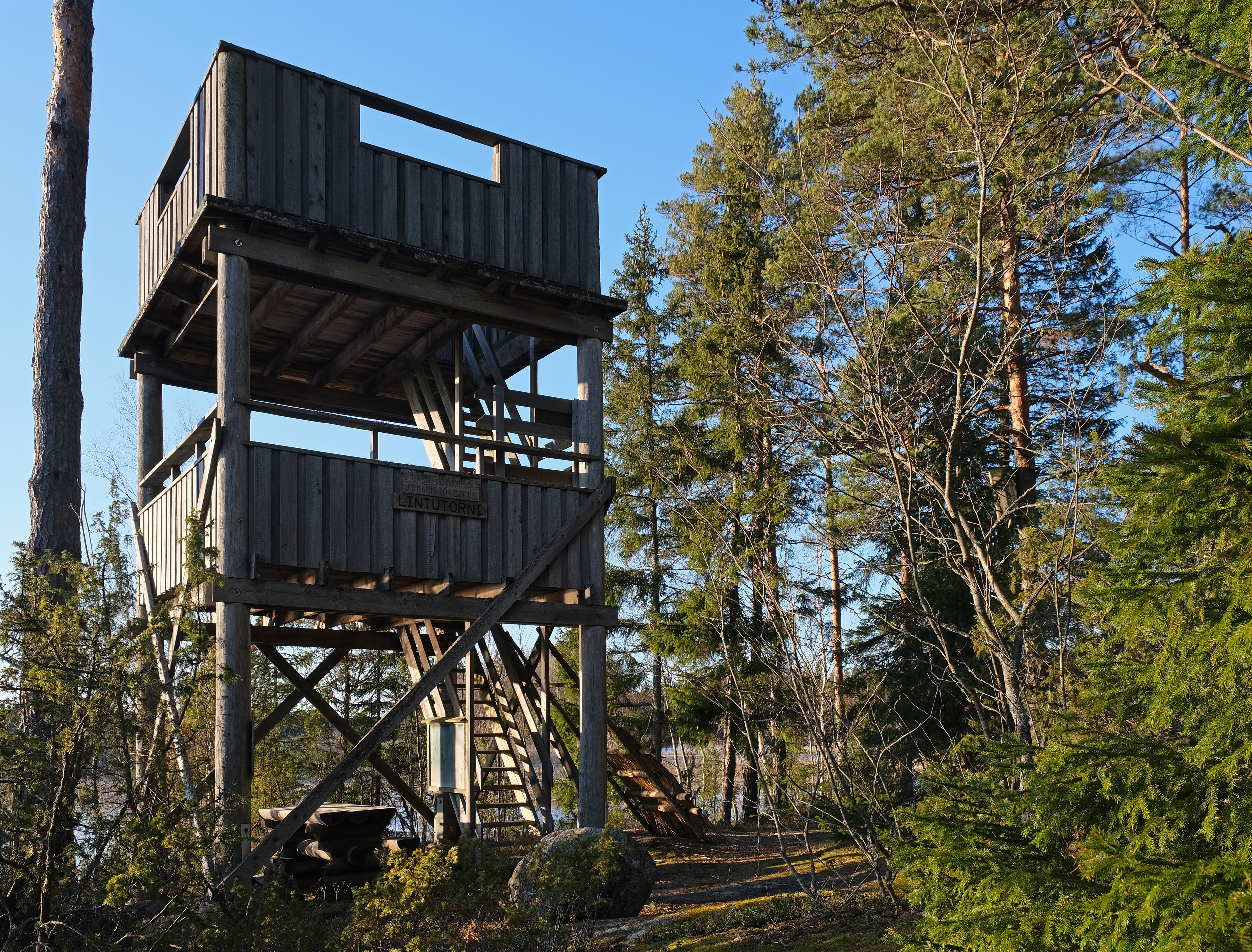 Kauklaistenjärvi birdwatching tower, Lappi, Rauma, Finland.